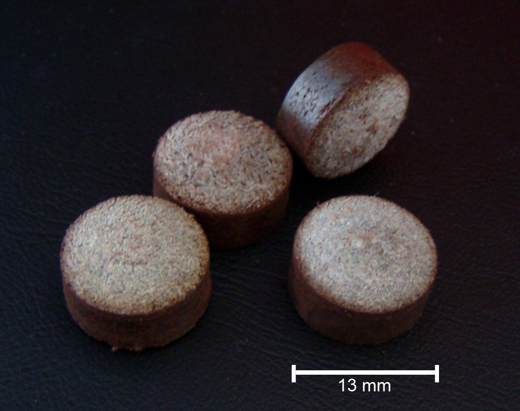 pool-cue tips - 13mm